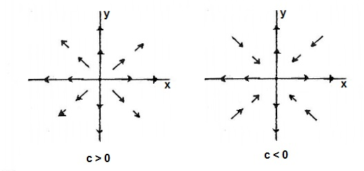 vector field